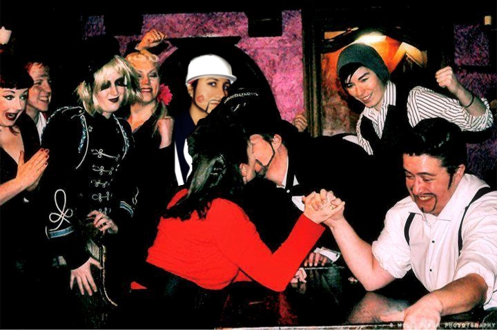 Lesburlesque heavily depicting their commitment to drag kinging